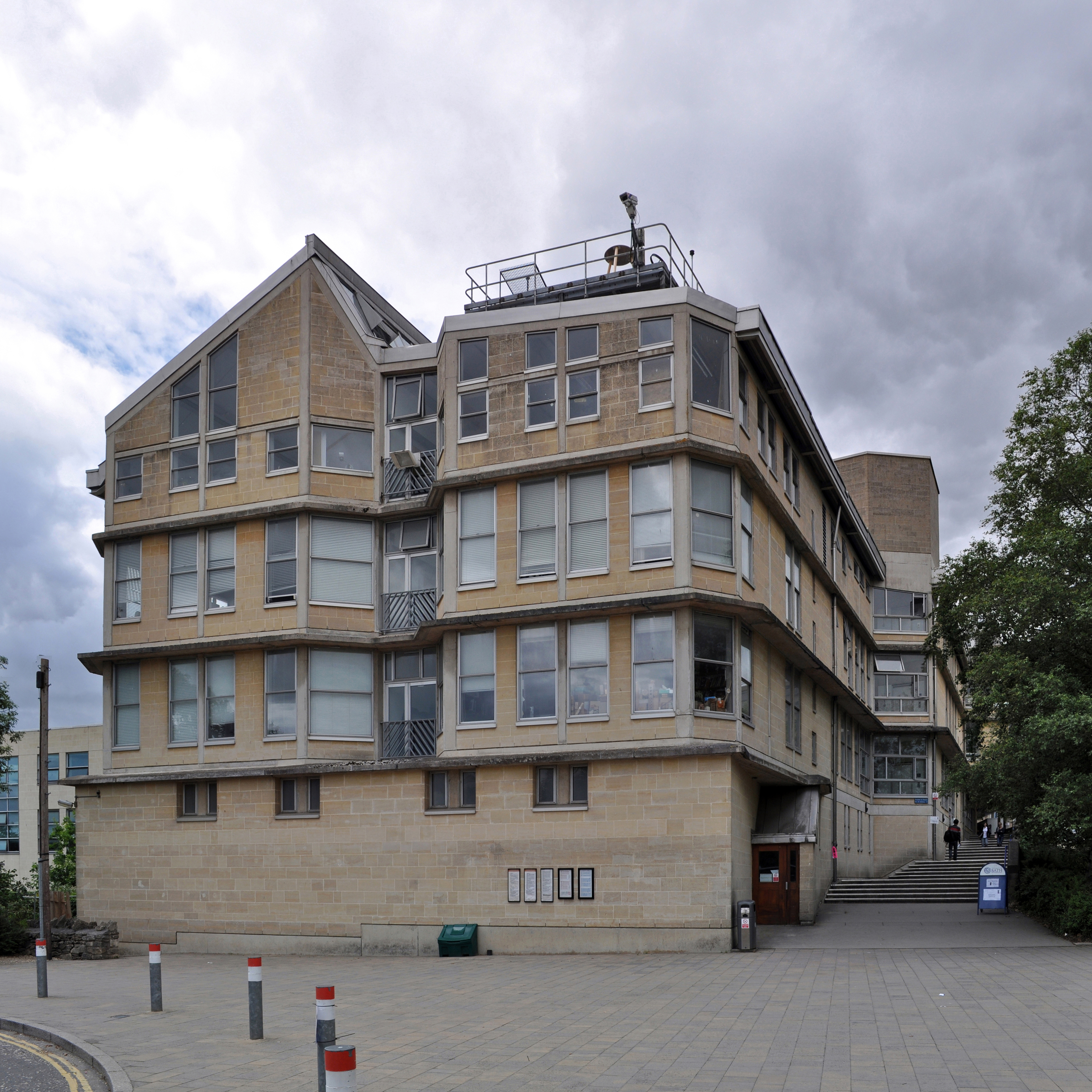 building 6 east, school of architecture and building engineering, university of bath, england 1982-1988. architects: peter and alison smithson (1923-2003 & 1928-1993).